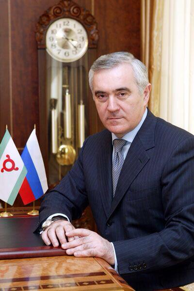 Zyazikov Murat Magometovitch, as a President of Republic of Ingushetia (2002-2008)